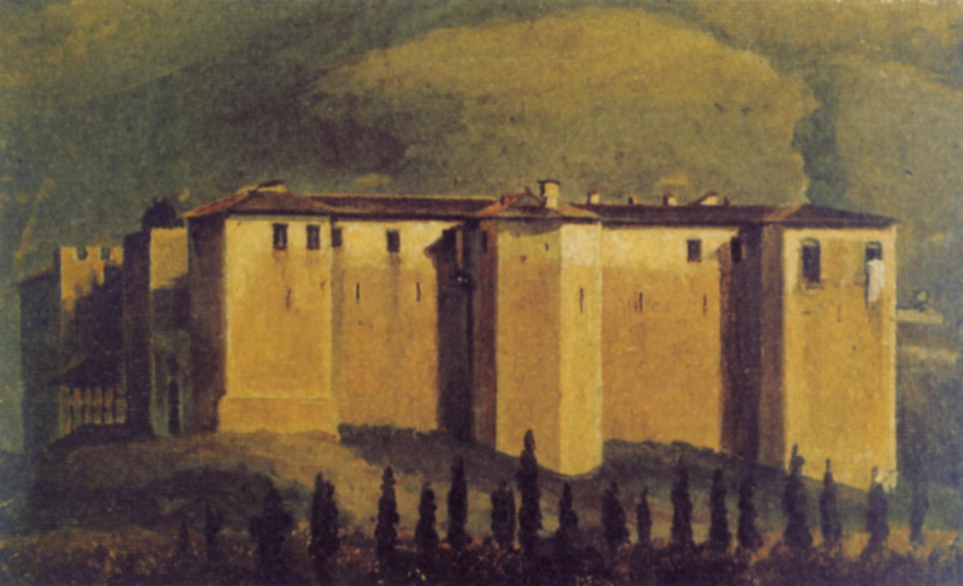 Emperor's Castle - Prato. 1856. Oil on cardboard painted by Innocenzo Cristani Salvi (1832-1906), an aristocrat who lived in Prato Palazzo Banci Buonamici in Prato and dabbled in design. Notice the roof of the structure and a house built close to the castle to the left of the main entrance, now demolished. The painting is kept in the town museum.